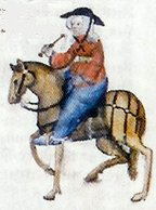 == Wife of Bath in the Ellesmere manuscript ==